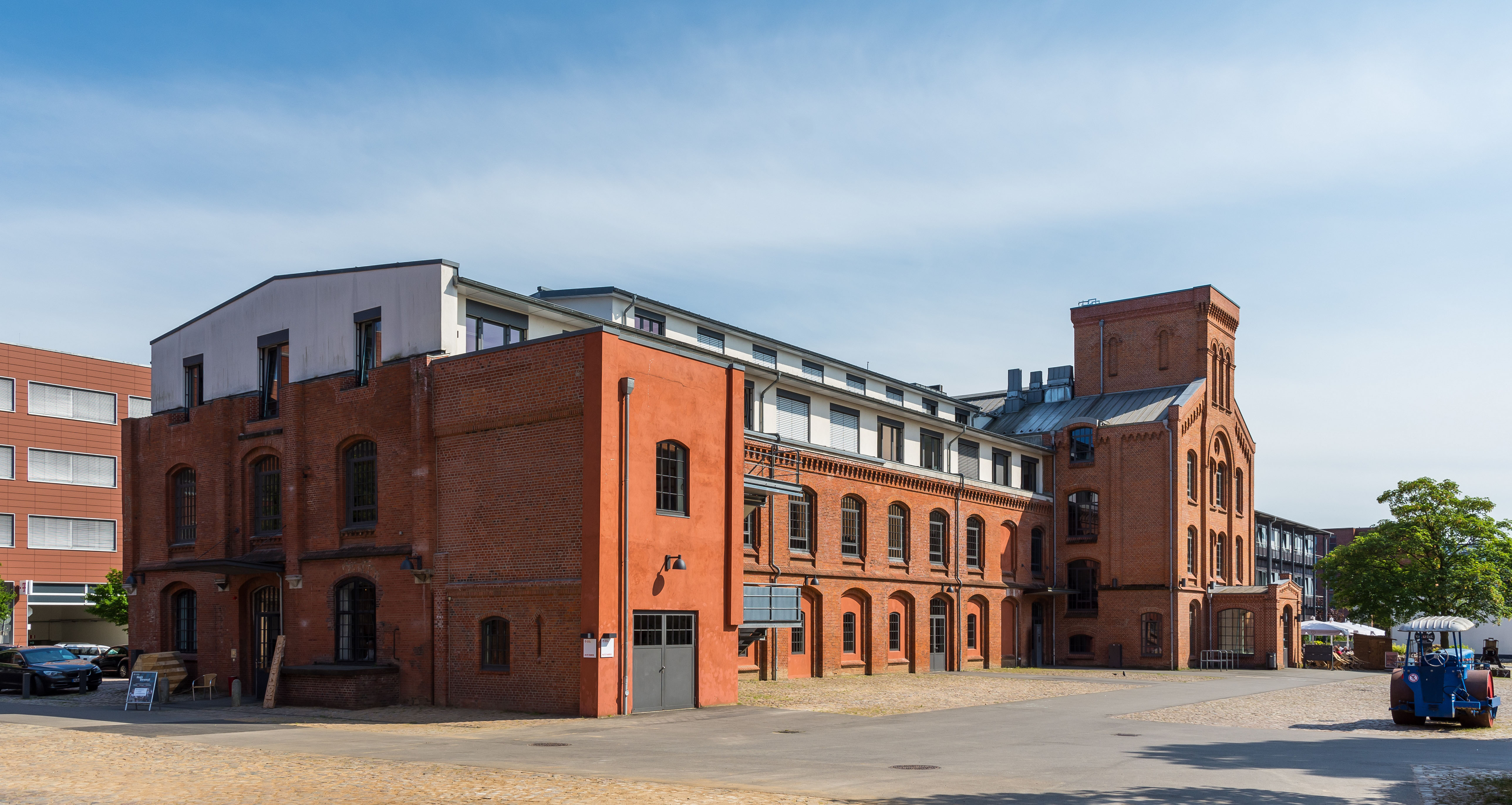 Museum der Arbeit (Labour Museum) in Hamburg-Barmbek, the building is the "Alte Fabrik" (old factory), part of a former rubber factory.